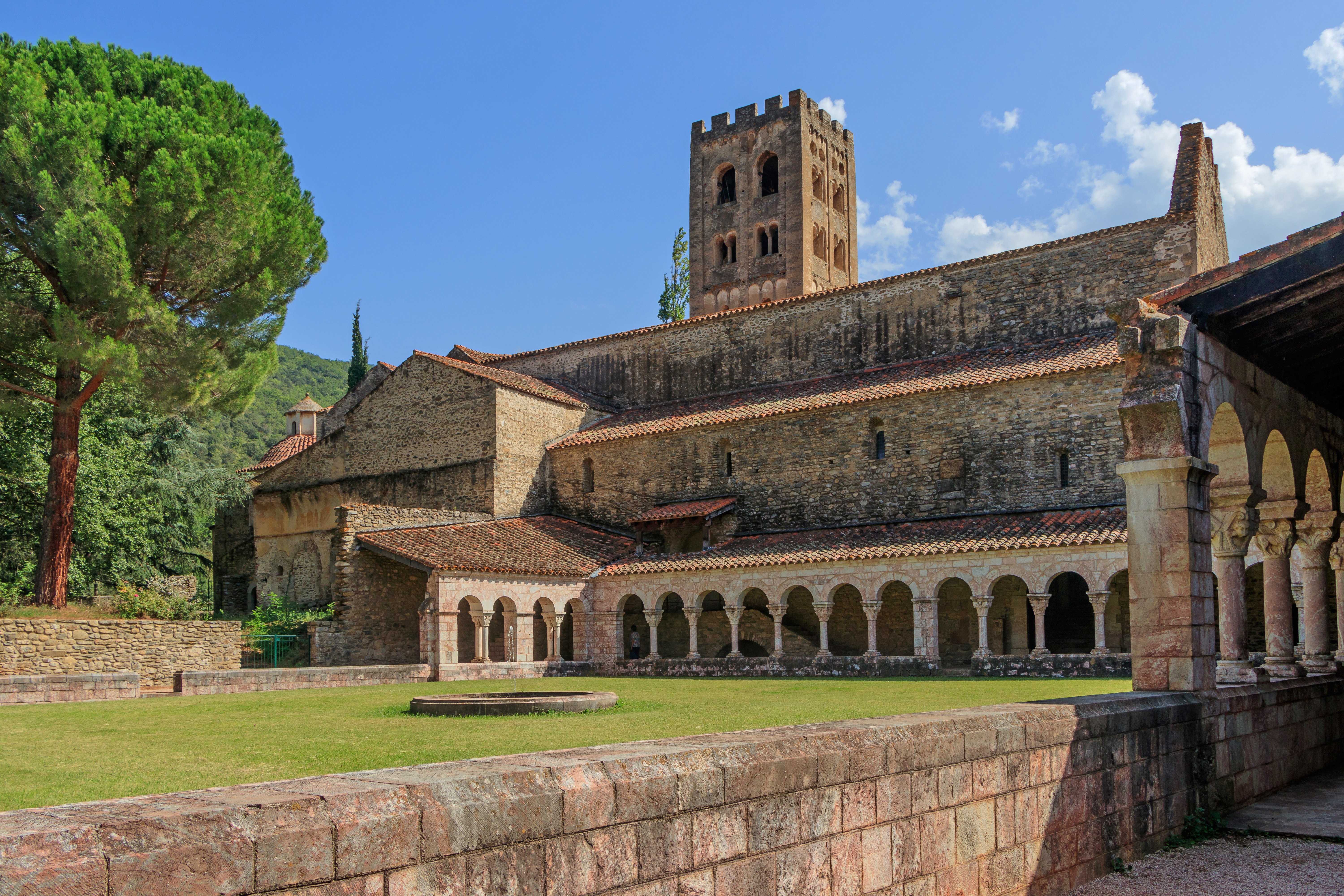 Abbey of Saint-Michel-de-Cuxa, Codalet, Pyrénées-Orientales department, France